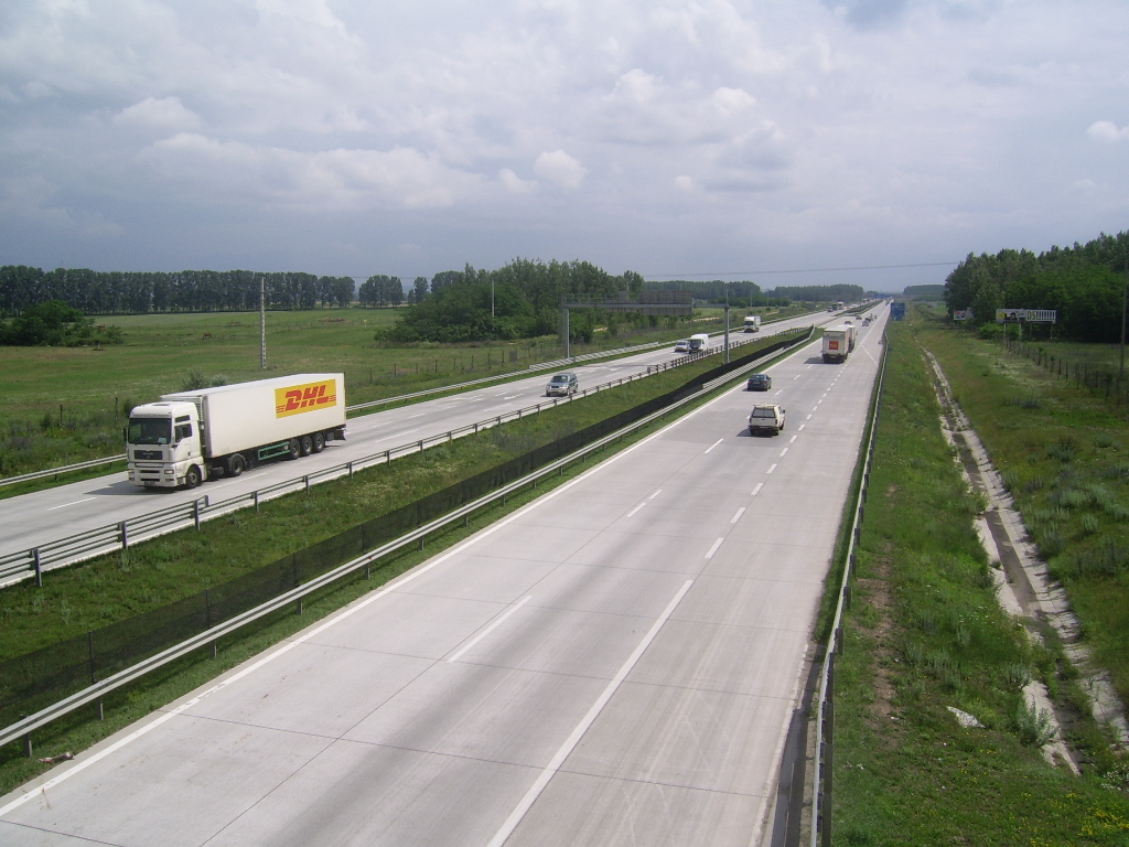 Motorway M0, south of Budapest, Hungary